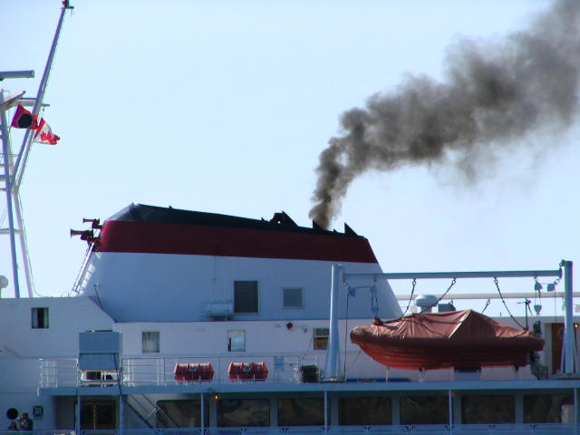 Martin Mullan, 2005, photo of a ferry in Victoria Harbour (Canada)